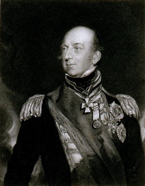 Image Lettering: [left] Painted by Sir Thomas Lawrence. [right] Engraved by C. Turner, A.R.A. Engraver in Ordinary to His Majesty. / Vice Admiral / SIR EDWARD CONDRINGTON, / G.C.B. - G.C.S.t L - K. S.t G. / Proof / London, Published June 1. 1830, by Mess.rs Colnaghi, Son & C.o Printsellers to His Majesty, Pall Mall East.